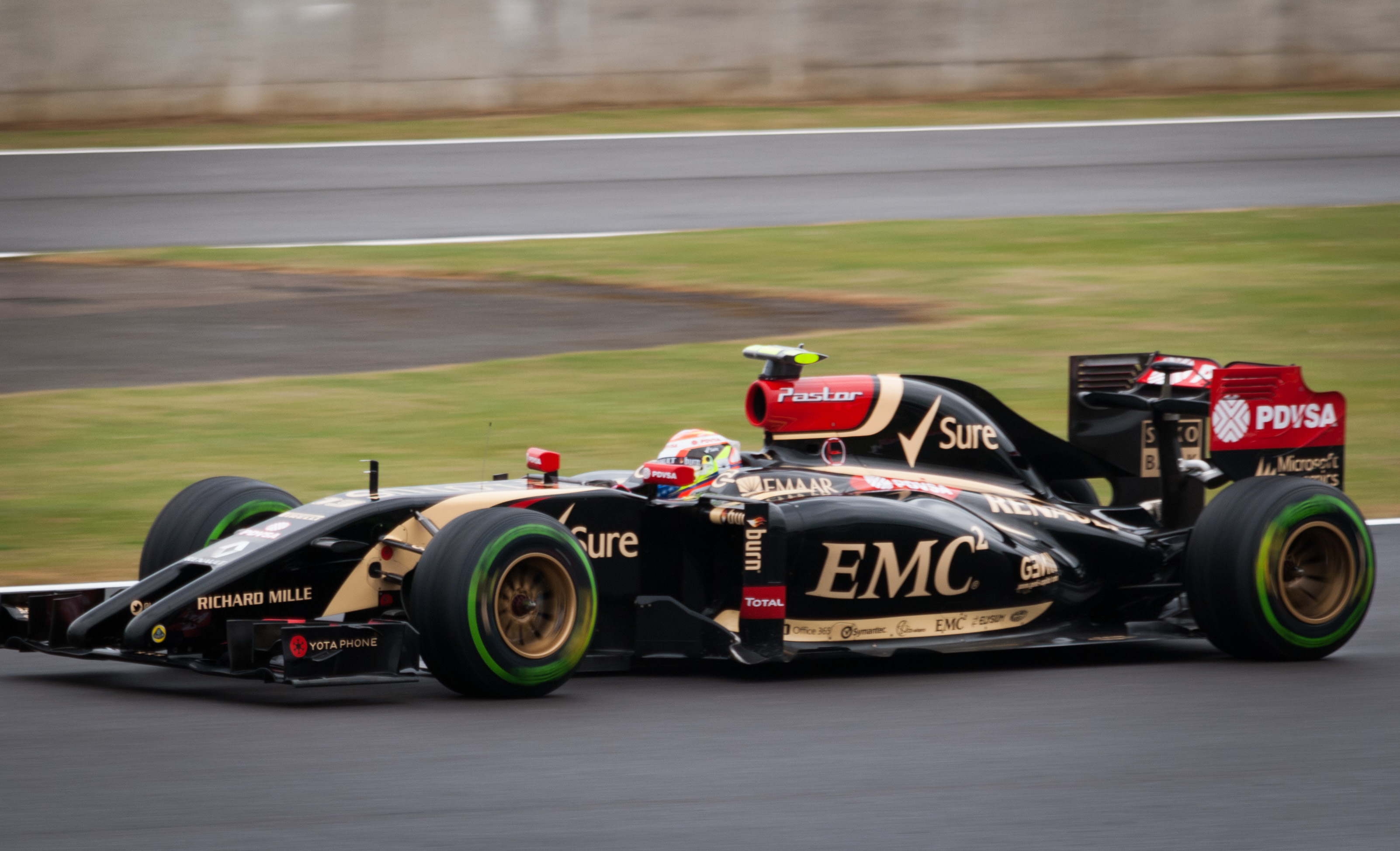 Pastor Maldonado on the Lotus E22 at 2014 British Grand Prix